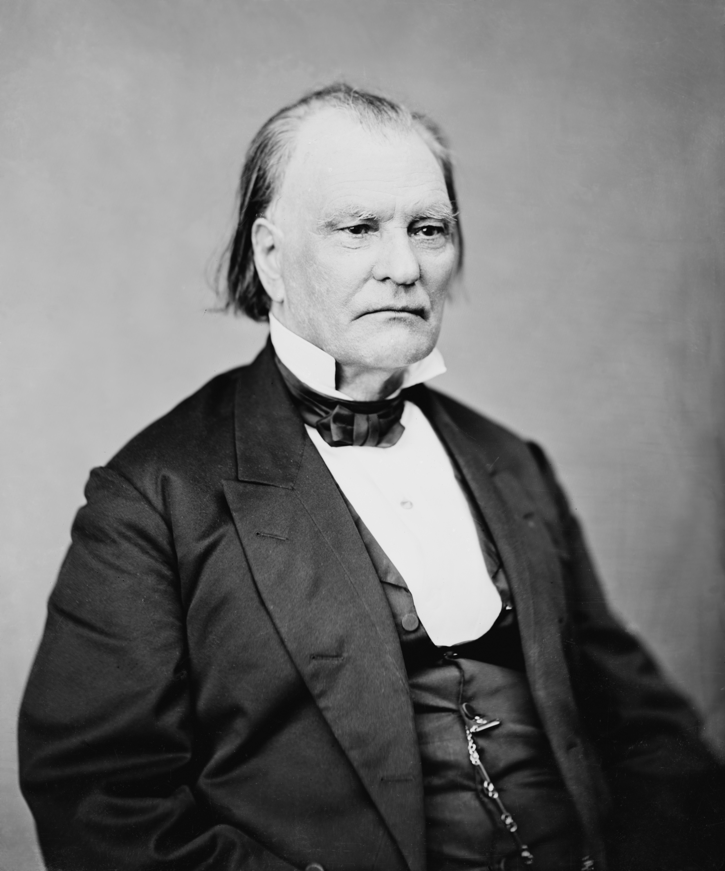 Benjamin Wade. Library of Congress description: "Hon. Benj. Franklin Wade of Ohio"